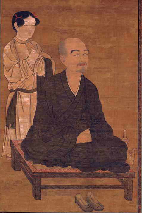 Huiguo, 14th century, Kamakura, National Museum,Tokyo.